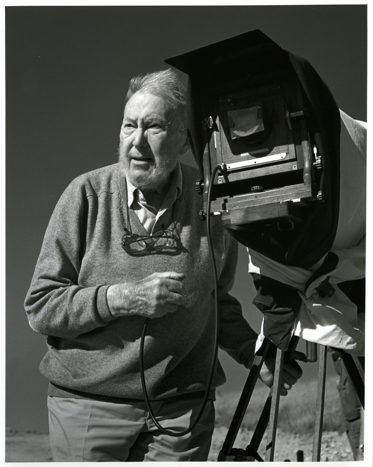 Morley Baer making a photograph with his vintage Ansco camera, early 90s, by David Fullagar